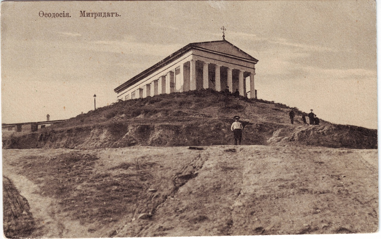 Museum of antiquities in Feodosia built by Aivasovsky I.K.